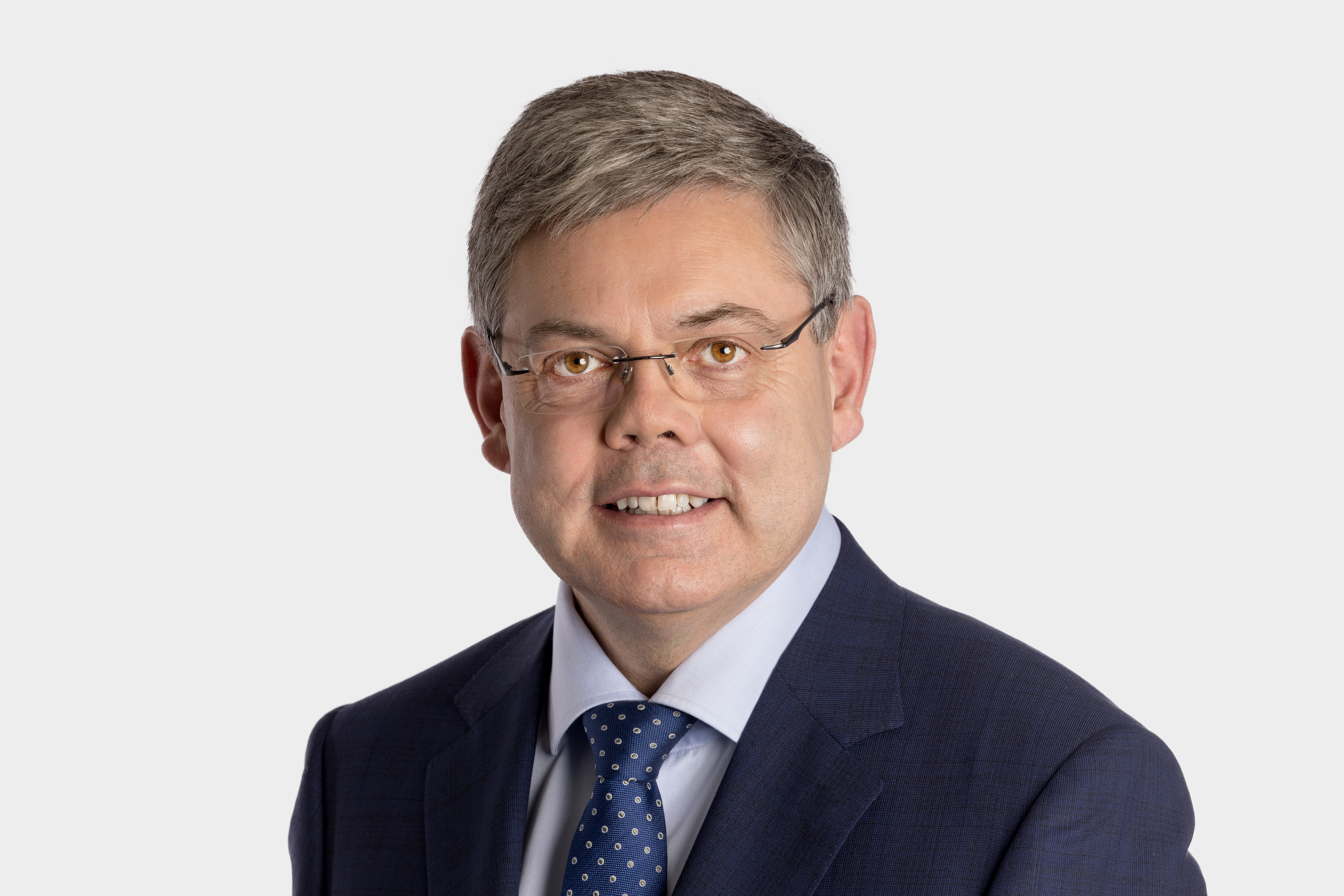 Franz Grüter, National Councillor